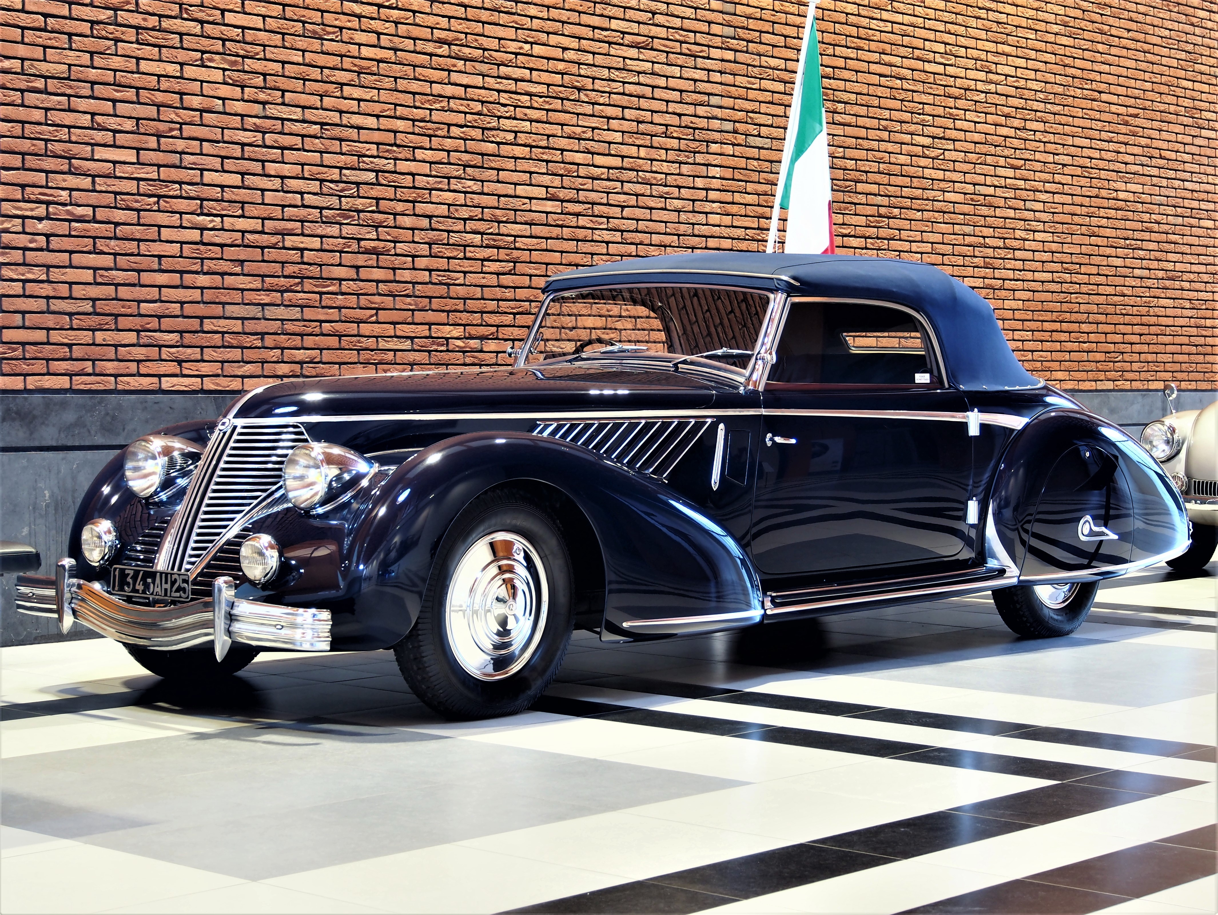 1938 Lancia Astura PininFarina photographed at the Louwman museum.